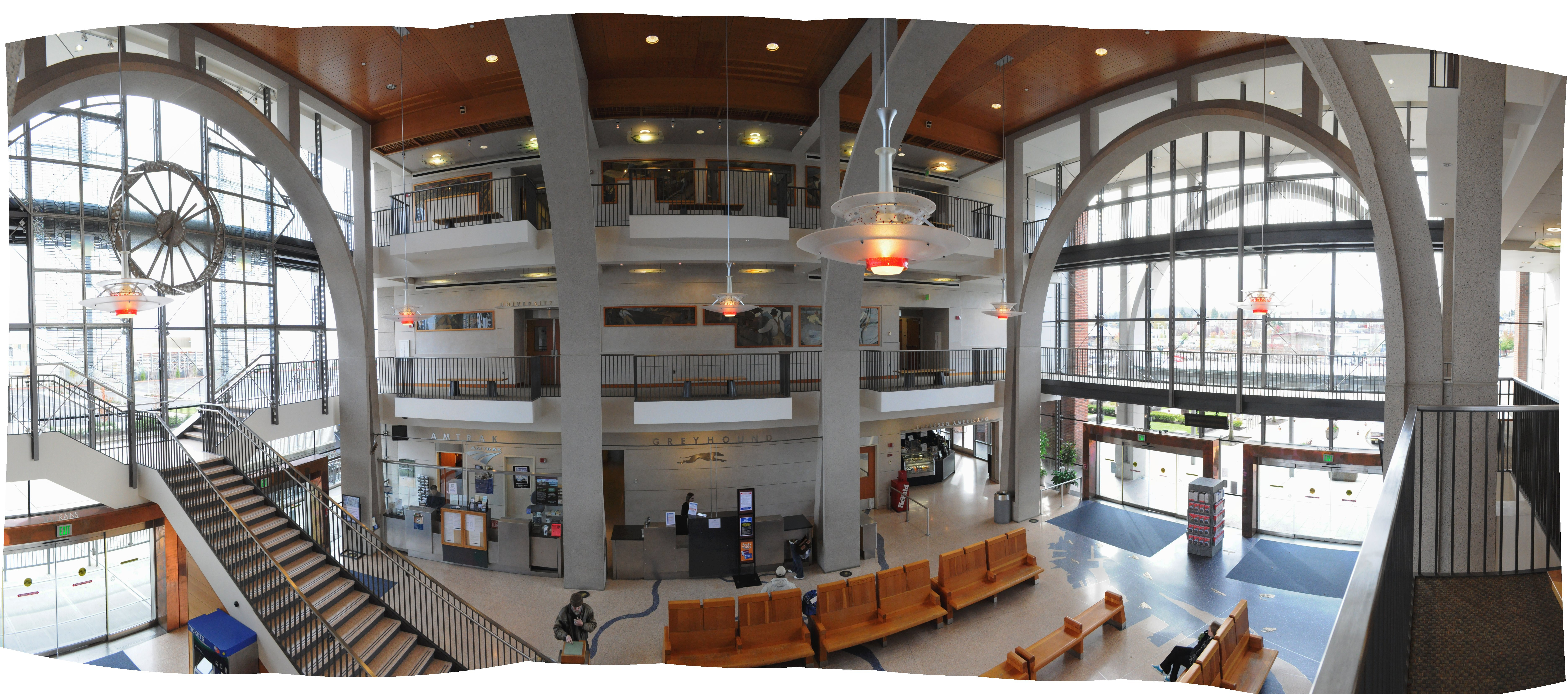 Panoramic view of interior, Everett Station, 3201 Smith Avenue, Everett, Washington, USA. Amtrak station, Greyhound Bus station, classrooms, meeting facilities, etc. The building also is effectively a museum, with a permanent collection of early work by artist Kenneth Callahan donated by Weyerhaeuser. This image was created with Hugin